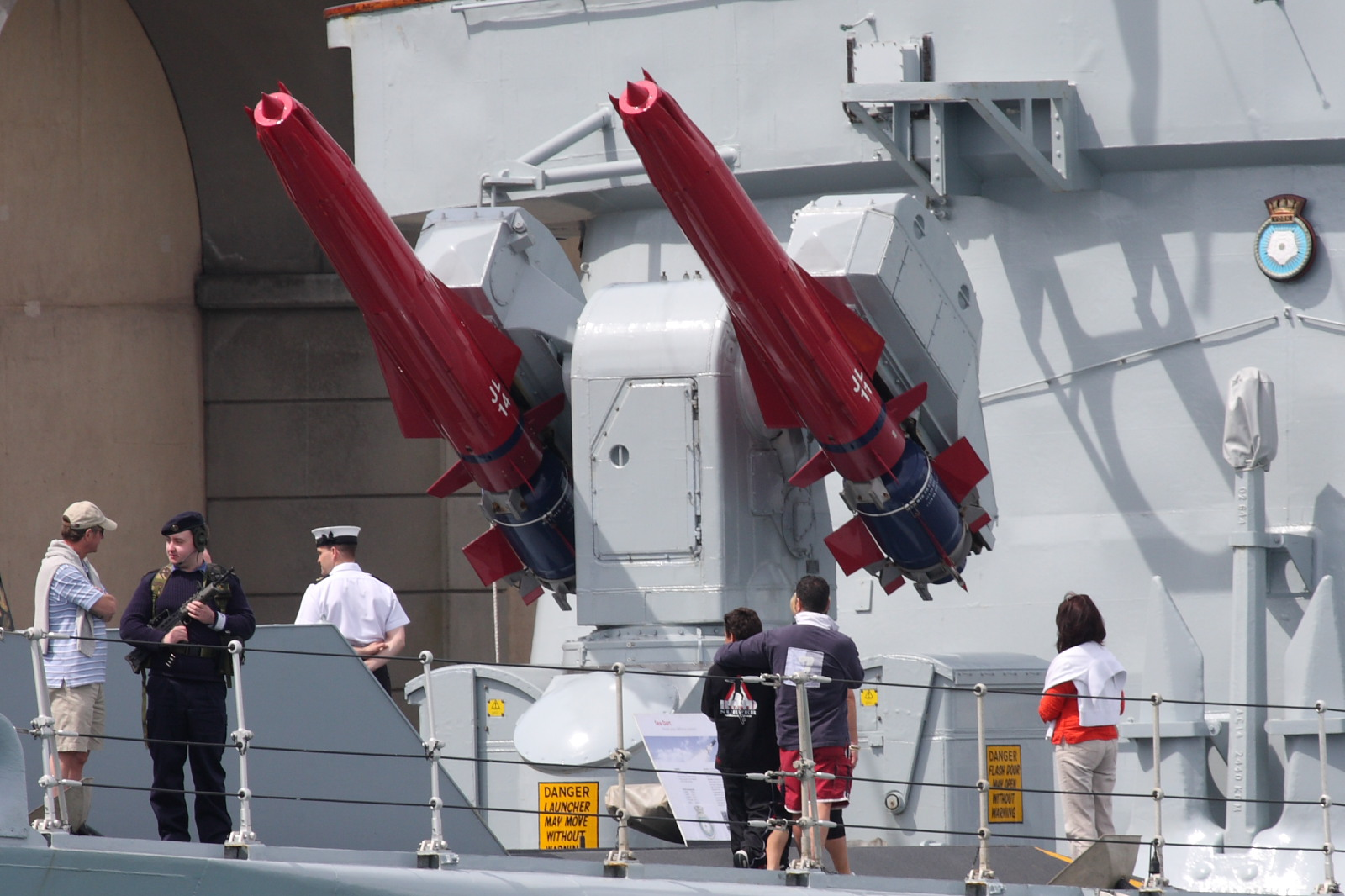 Sea Dart surface-to-air missiles on the HMS York (D98) destroyer. Photo taken in Jersey.